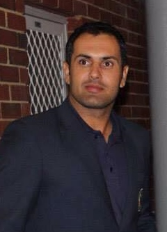 Mohammad Nabi. I took this photo with my phone and cropped it.